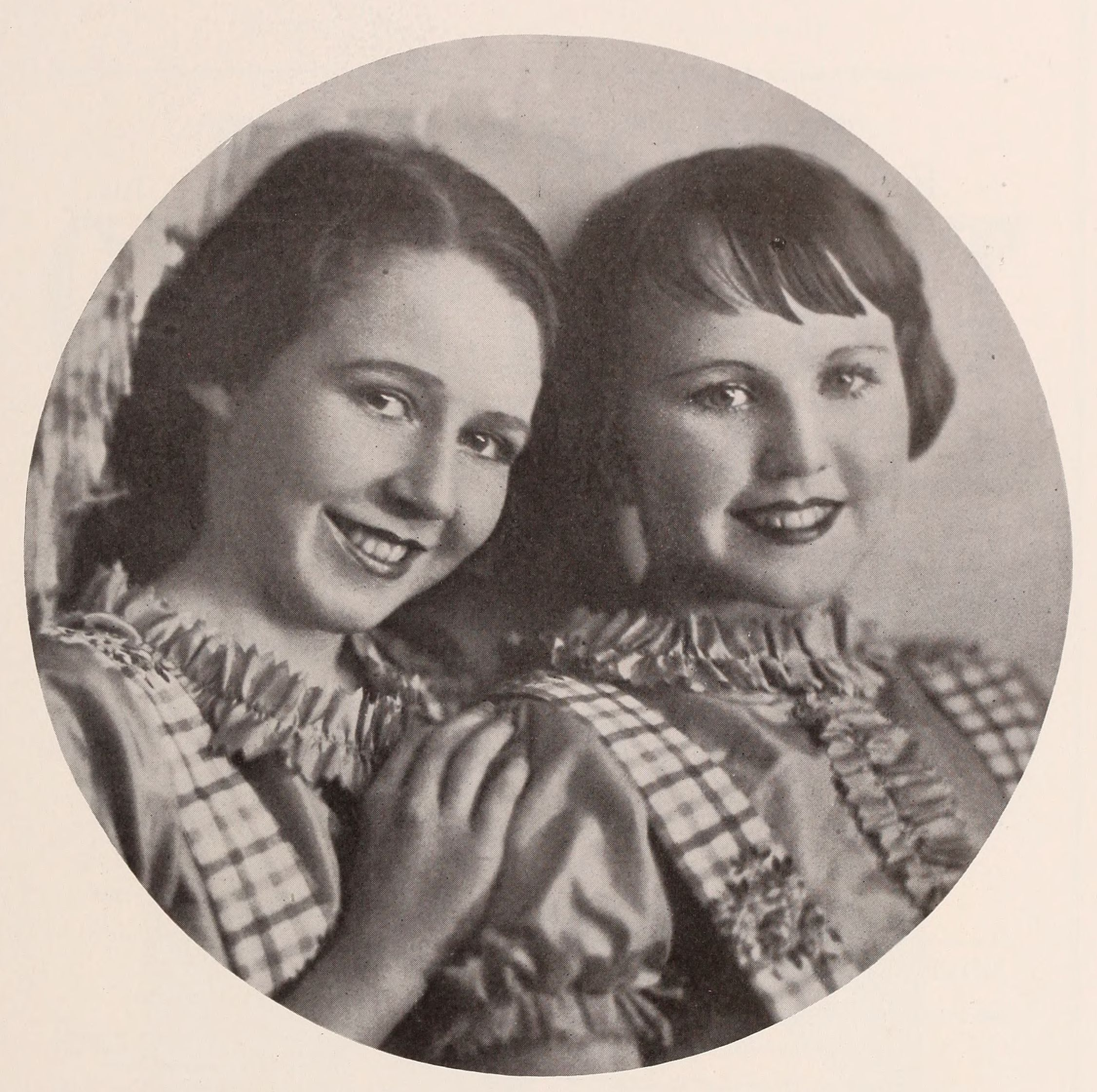 Vaudeville performers Jane and Katherine Lee, the "Baby Grands"